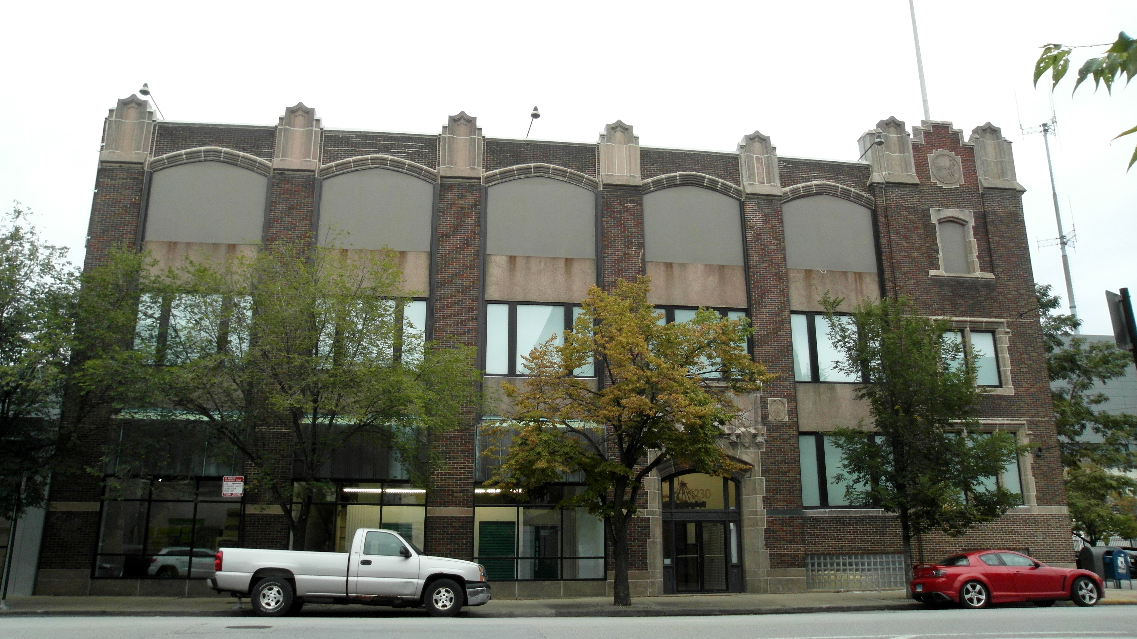 The Prairie Farmer Building at 1230 W. Washington in Chicago. Built in 1928, it housed the studios of WLS 890 AM from 1930 to 1960.